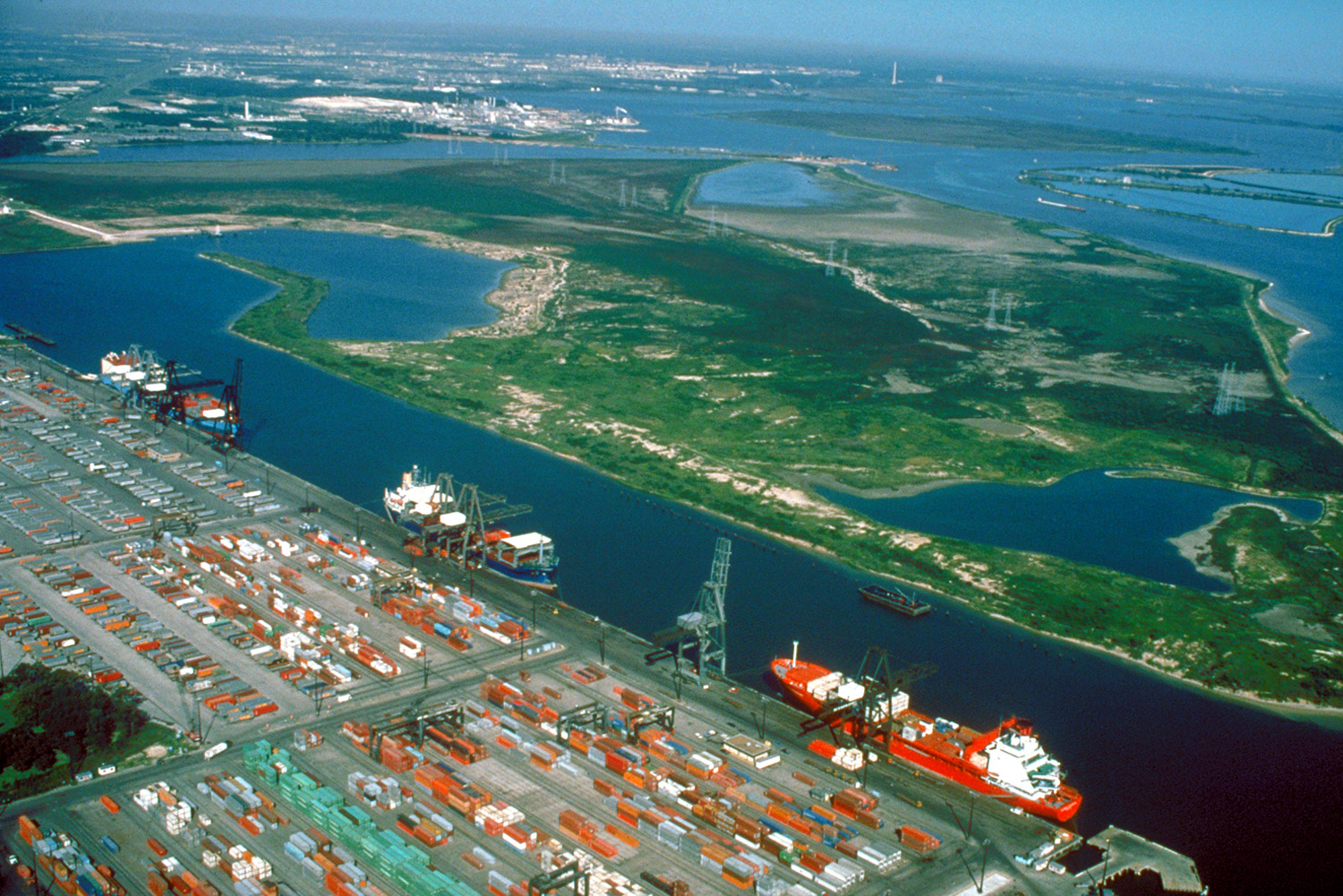 Aerial view of the Barbour's Cut area on the Houston Ship Channel in Houston, Texas, USA. This area is a large container terminal. This photograph appears to have been taken before the Fred Hartman Bridge was built, or when the bridge was under construction. In a present-day photograph, the bridge should be clearly visible at top right. Coordinates: 29°40′54.98″N 94°59′54.37″W / 29.6819389°N 94.9984361°W